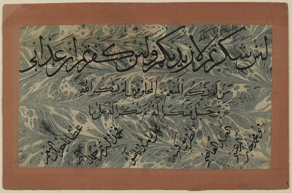 This fragmentary calligraphic panel includes a verse from the Qur'an (14:7) and praises to God executed on blue and white marble paper in thuluth, Persian naskh, and tawqi' scripts (Selim 1979, 171).